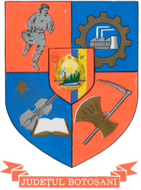 Communist coat of arms of Botoșani County, Socialist Republic of Romania.